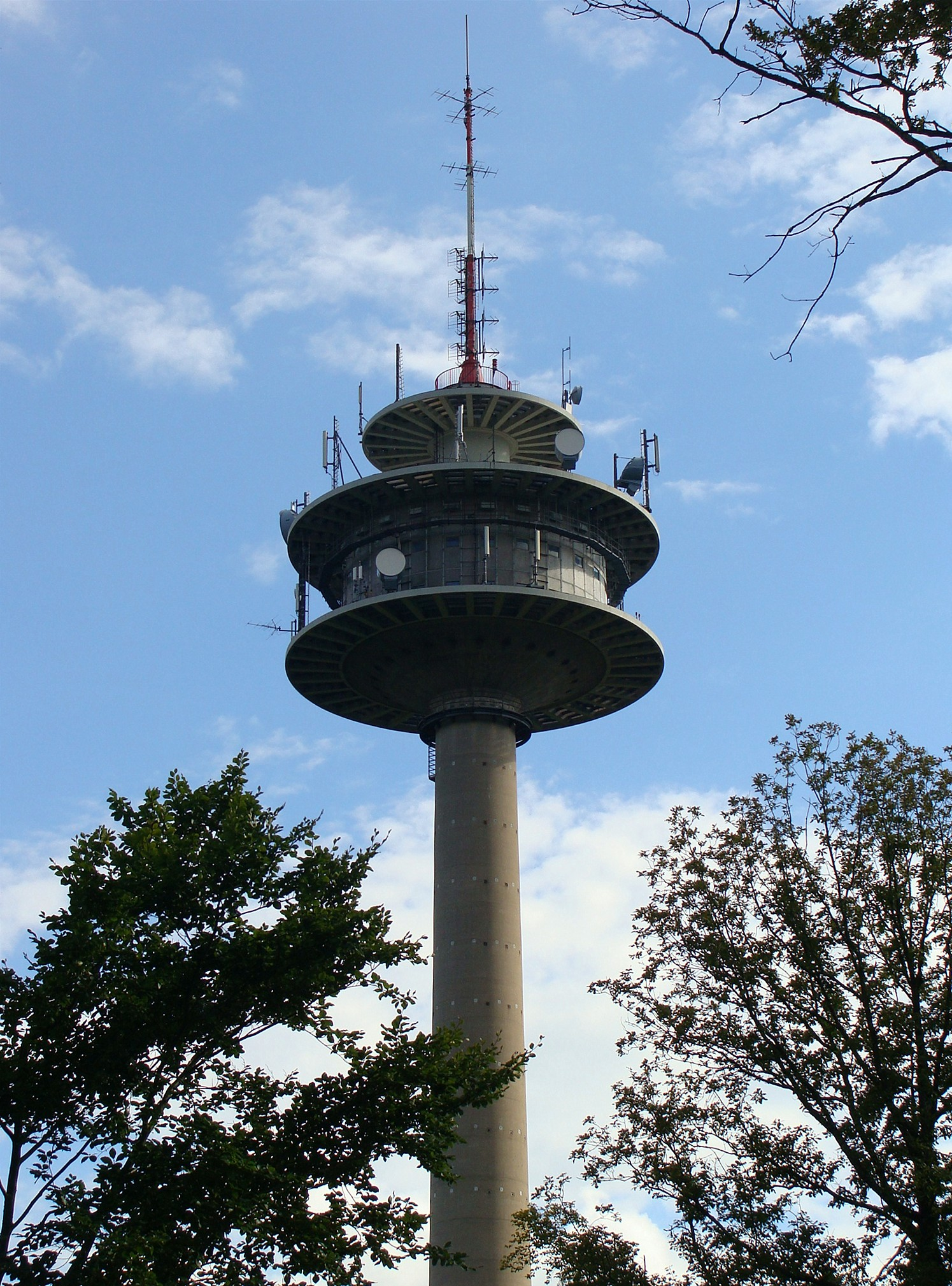 Transmitter, Radio Station Burgbernheim